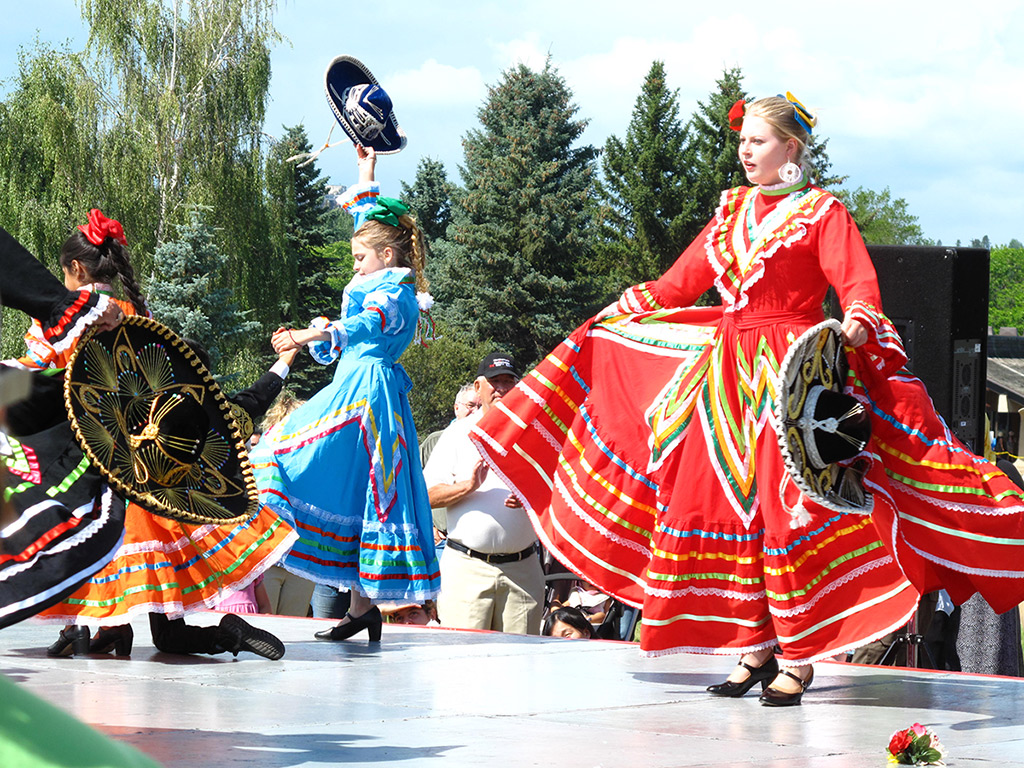 Mexican dancers at the Heritage Days festival in Edmonton, Alberta, Canada